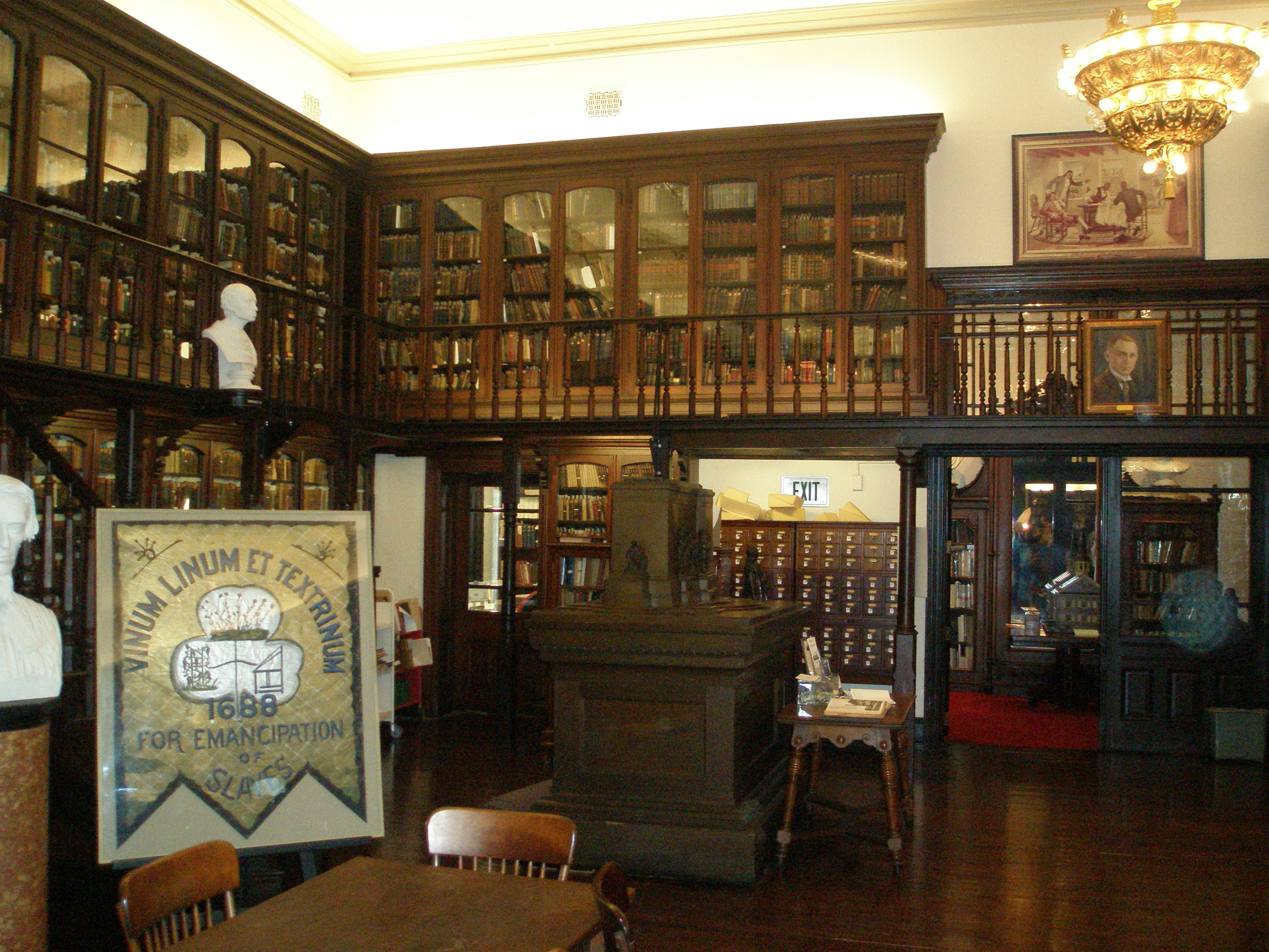 The German Society of Pennsylvania in Philadelphia, Pennsylvania